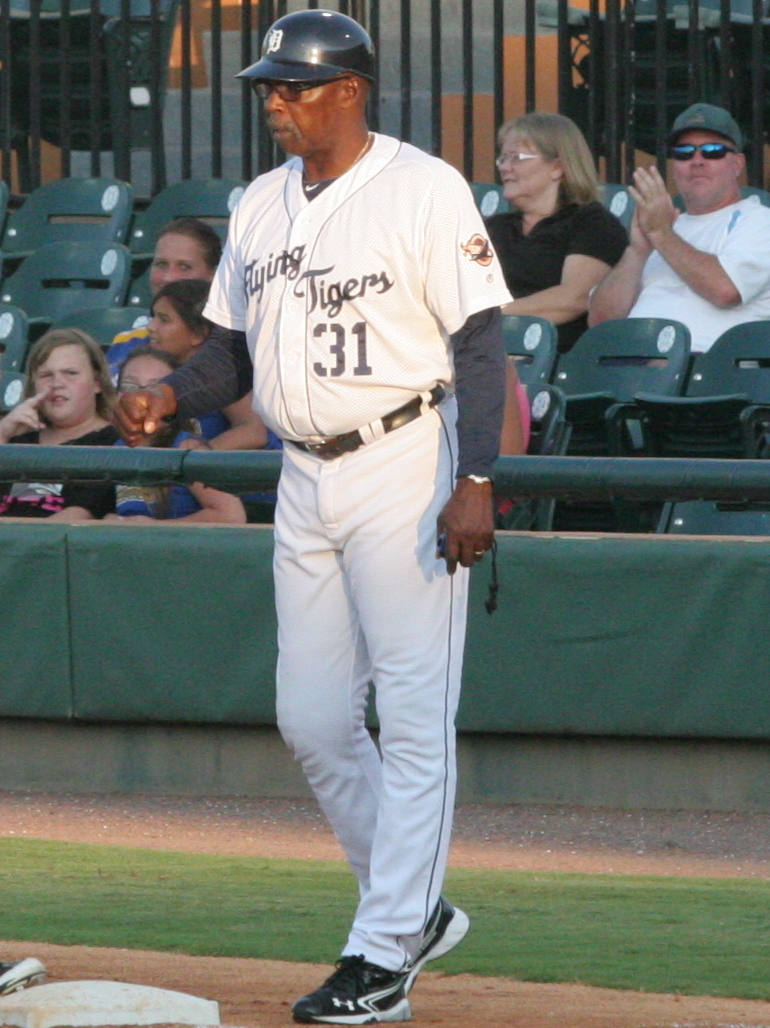 Curtis Lemon (left) and Larry Herndon of the Lakeland Flying Tigers in 2012